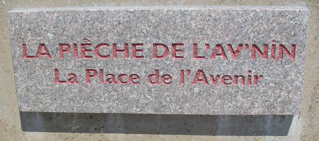 Bilingual placename sign in Jèrriais and French at La Pièche dé l'Av'nîn, St. Helier, Jersey Photo taken by Man vyi with Canon PowerShot A40 on 22/7/2005